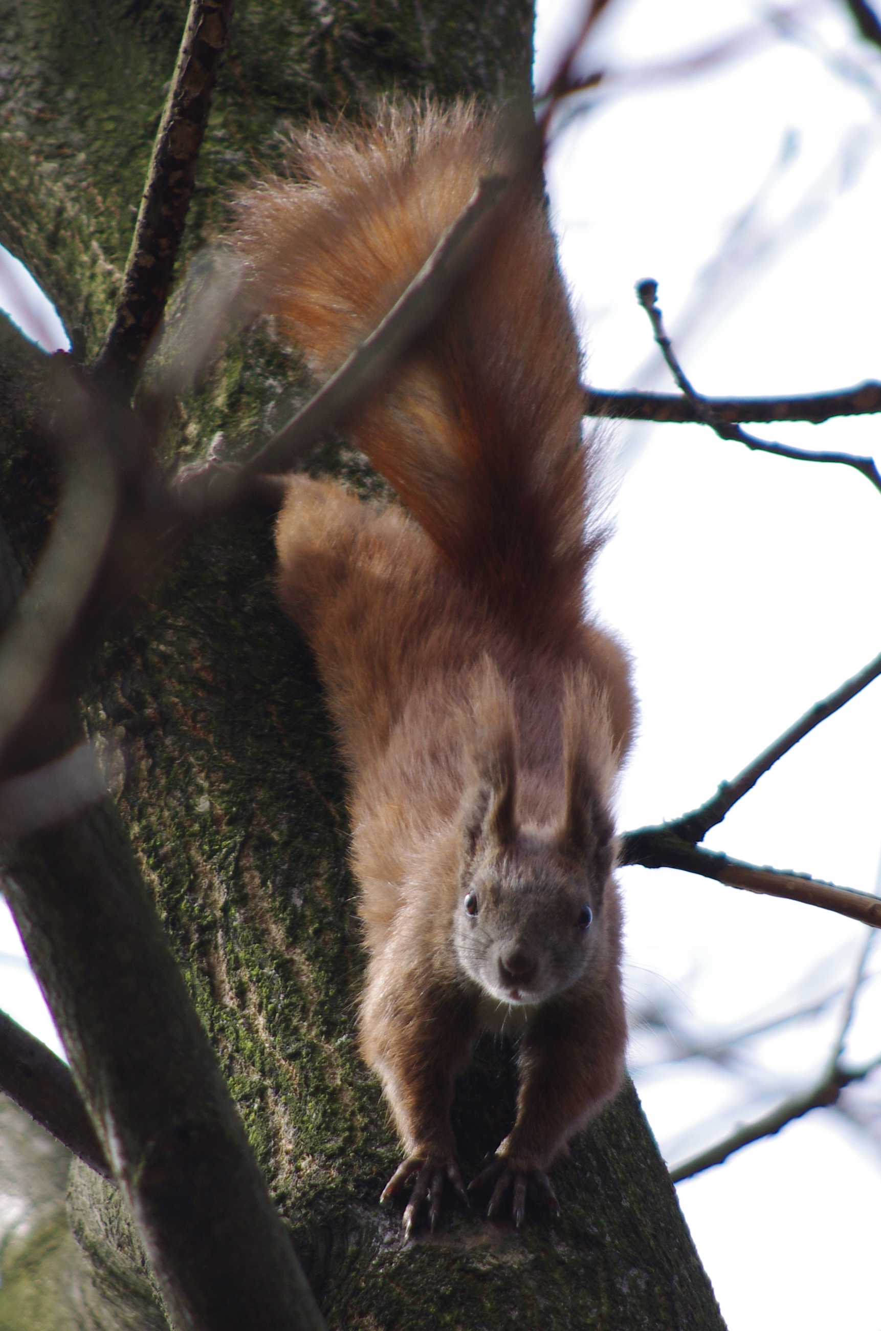 Red Squirrel